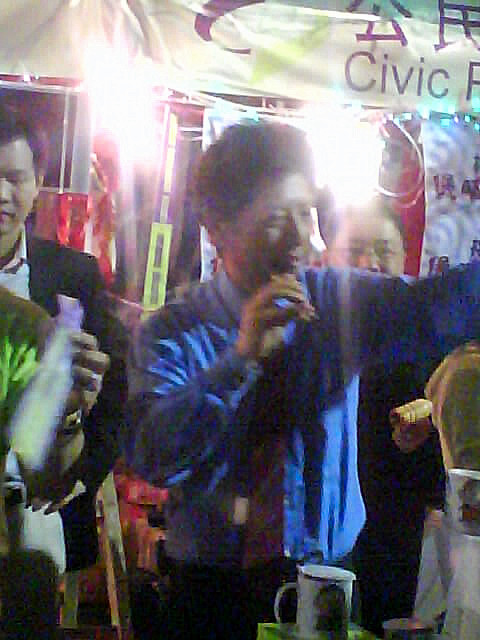 Ronny Tong 粵語: 湯家驊